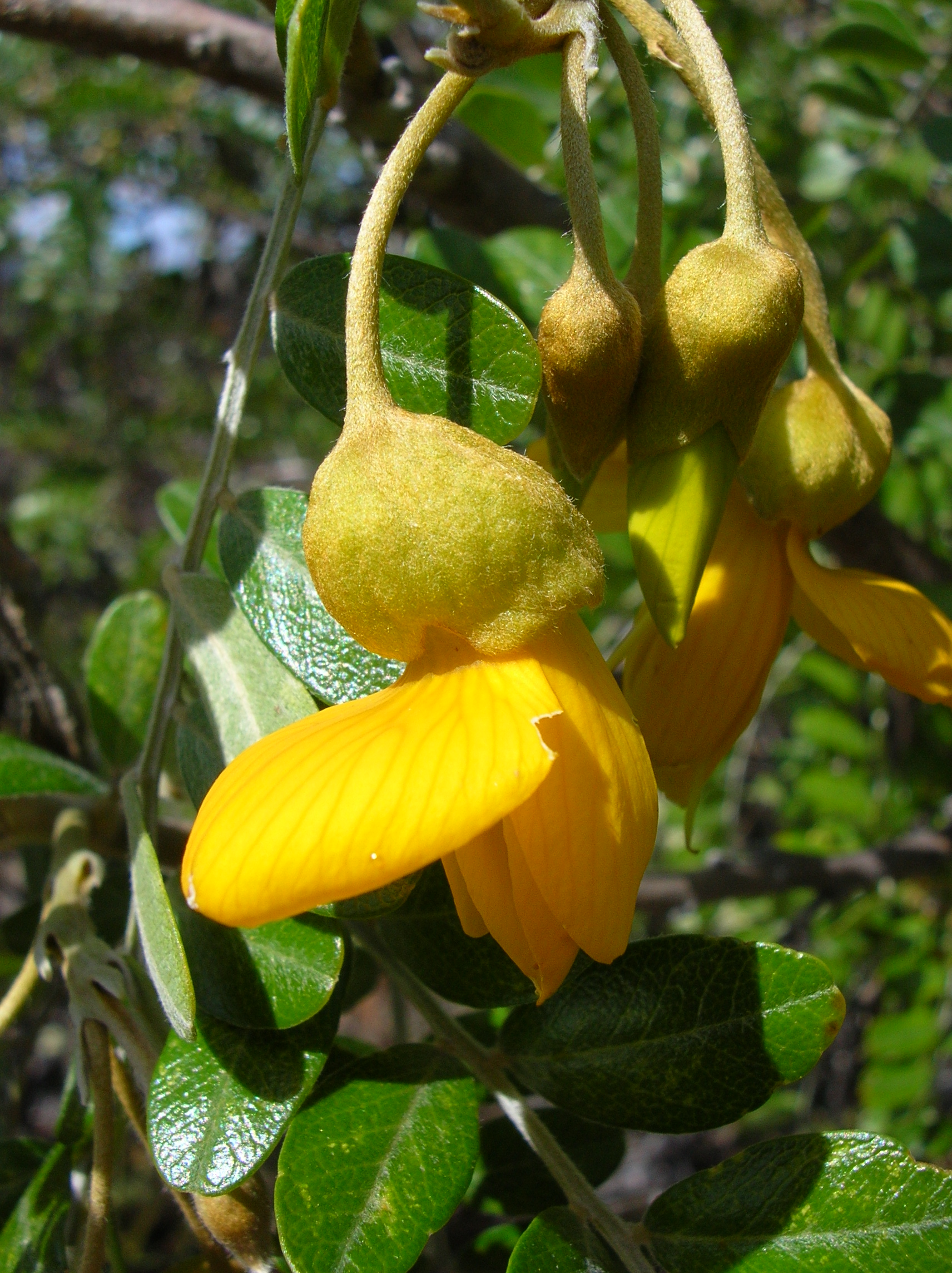 Sophora chrysophylla (flower). Location: Maui, Puu Mamane Haleakala National Park